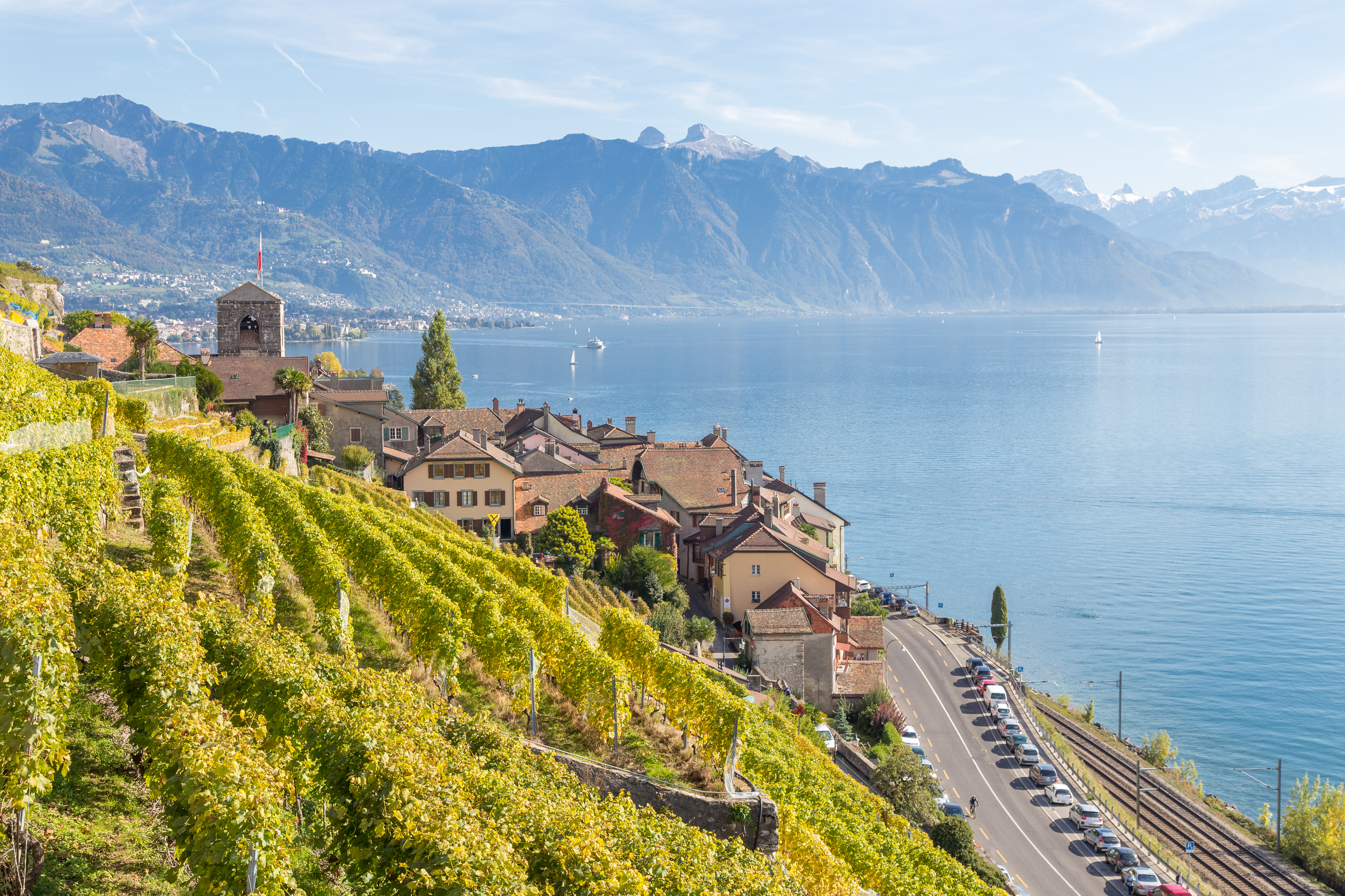 View on St-Saphorin with its vineyards at Lake Geneva, Switzerland.